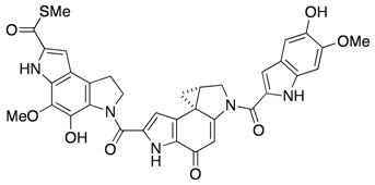 Yatakemycin structure